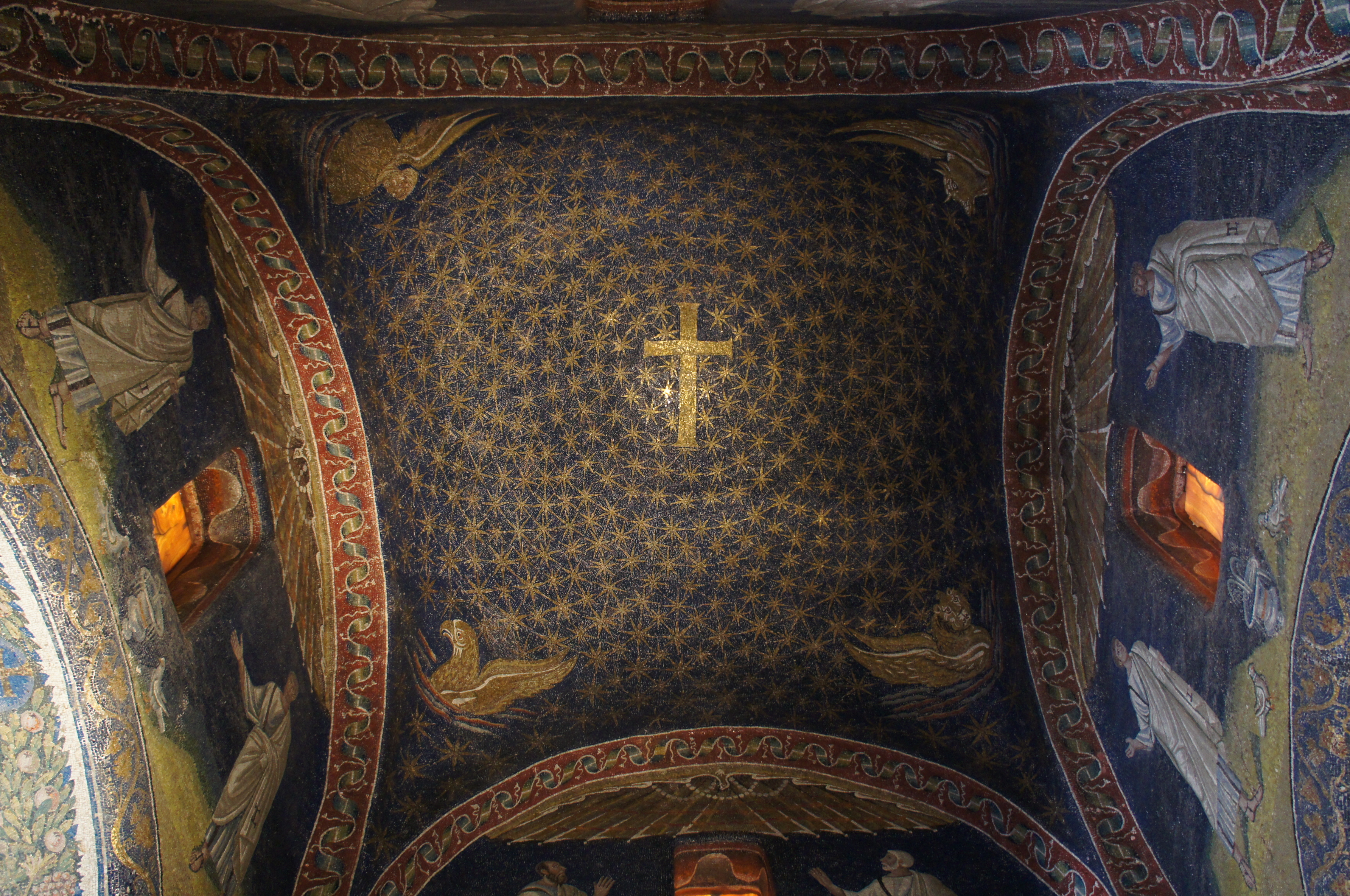 Mausoleum of Galla Placidia, Ravenna This is a photo of a monument which is part of cultural heritage of Italy.